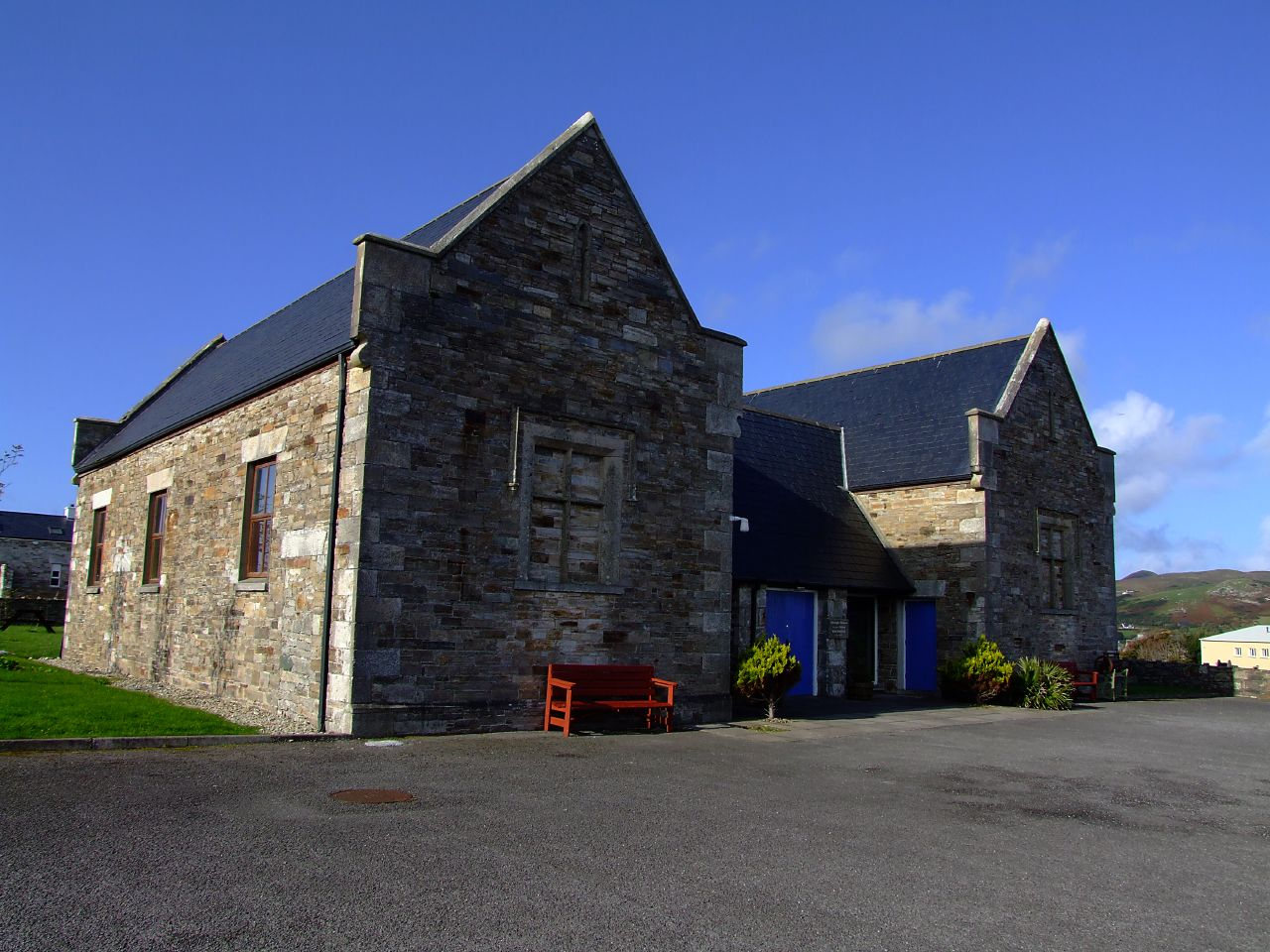 Image of former workhouse taken in Dunfanaghy, Donegal